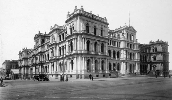 Treasury Building, Queen Street, Brisbane.